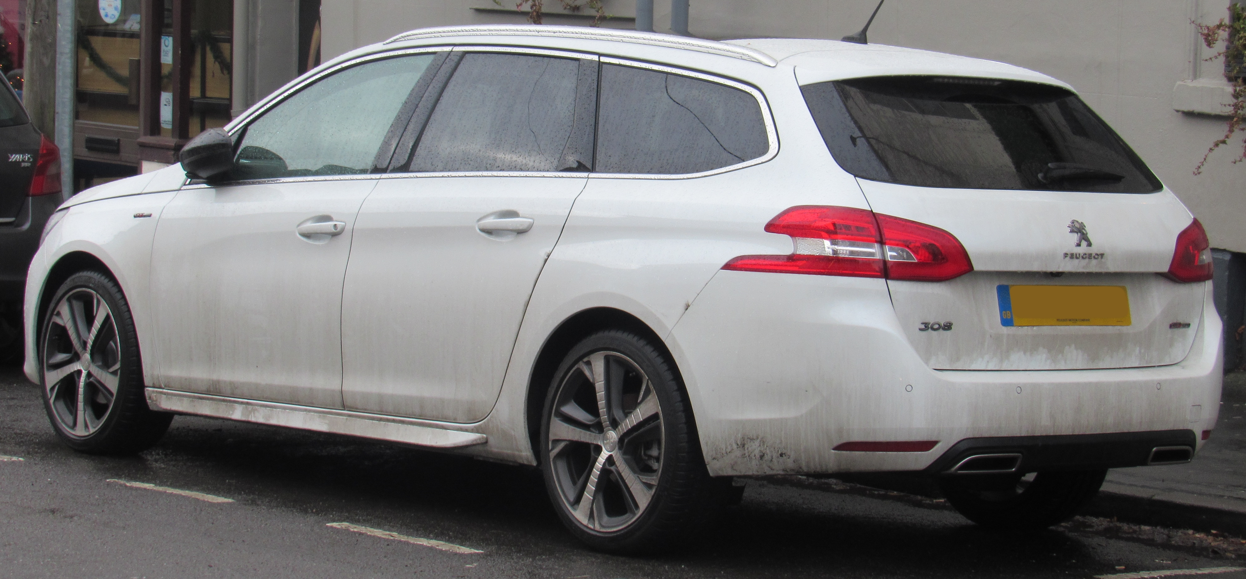 2017 Peugeot 308 GT Line SW HDi facelift 1.6